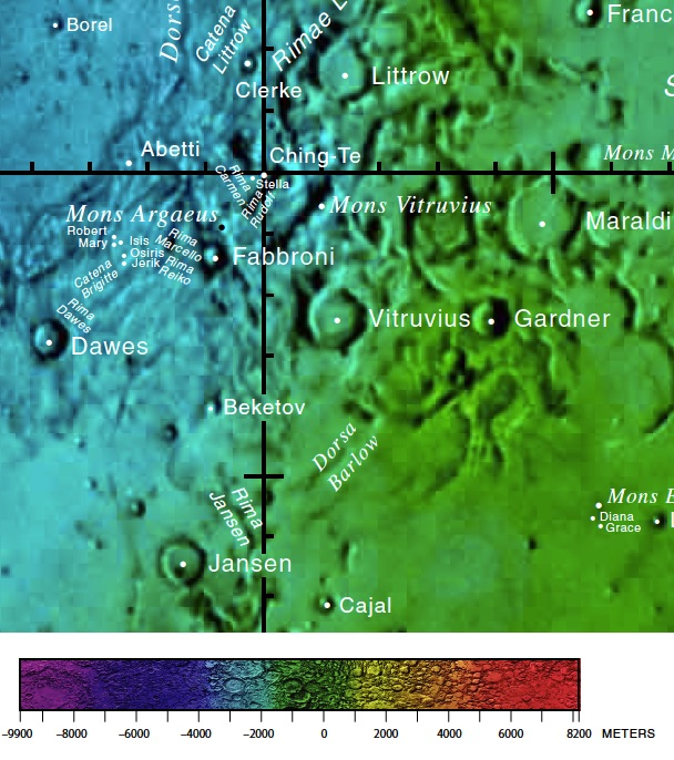 Part of the USGS near side lunar chart